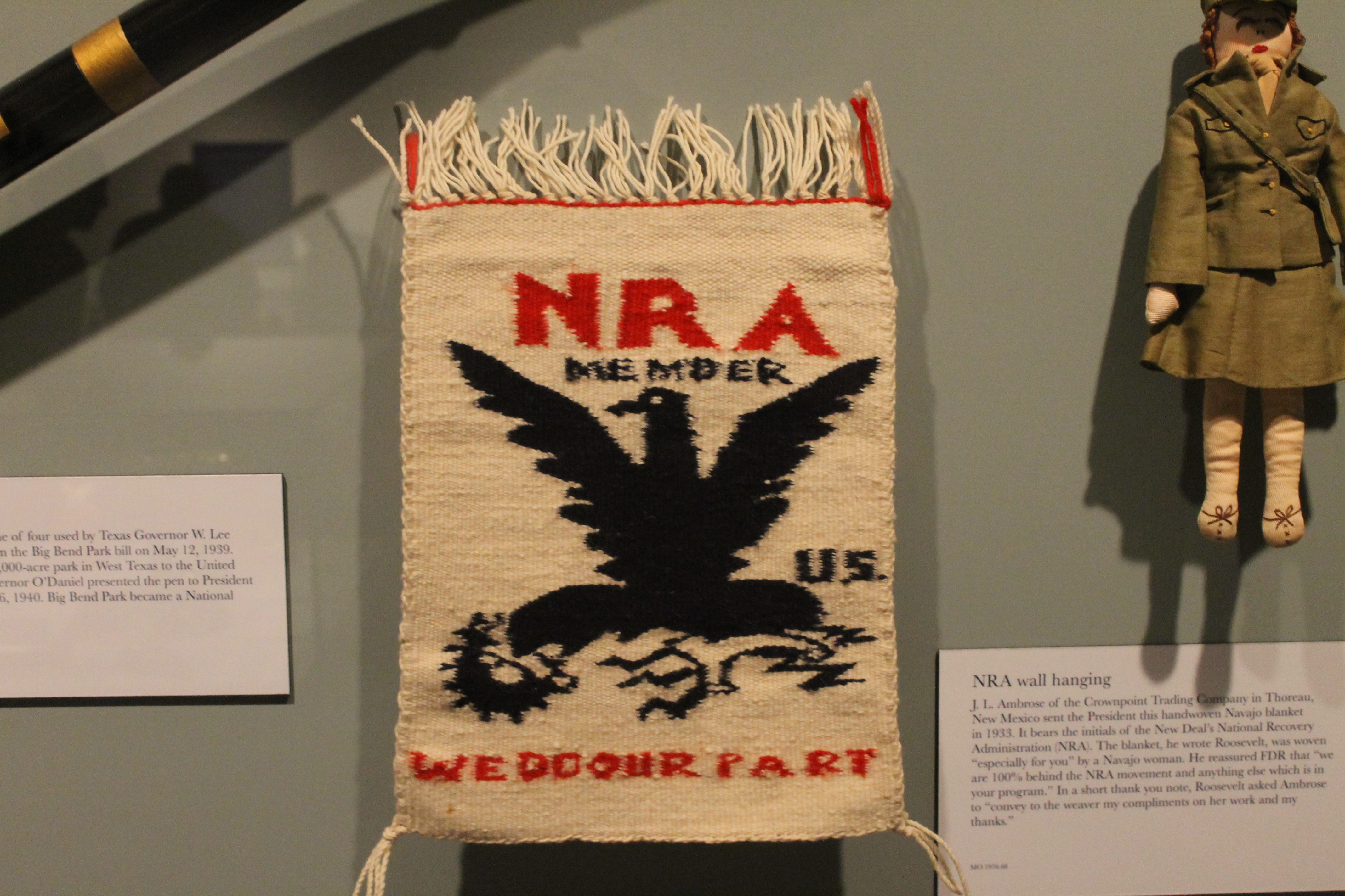 National Recovery Act tapestry at FDR House and Library in Hyde Park, NY